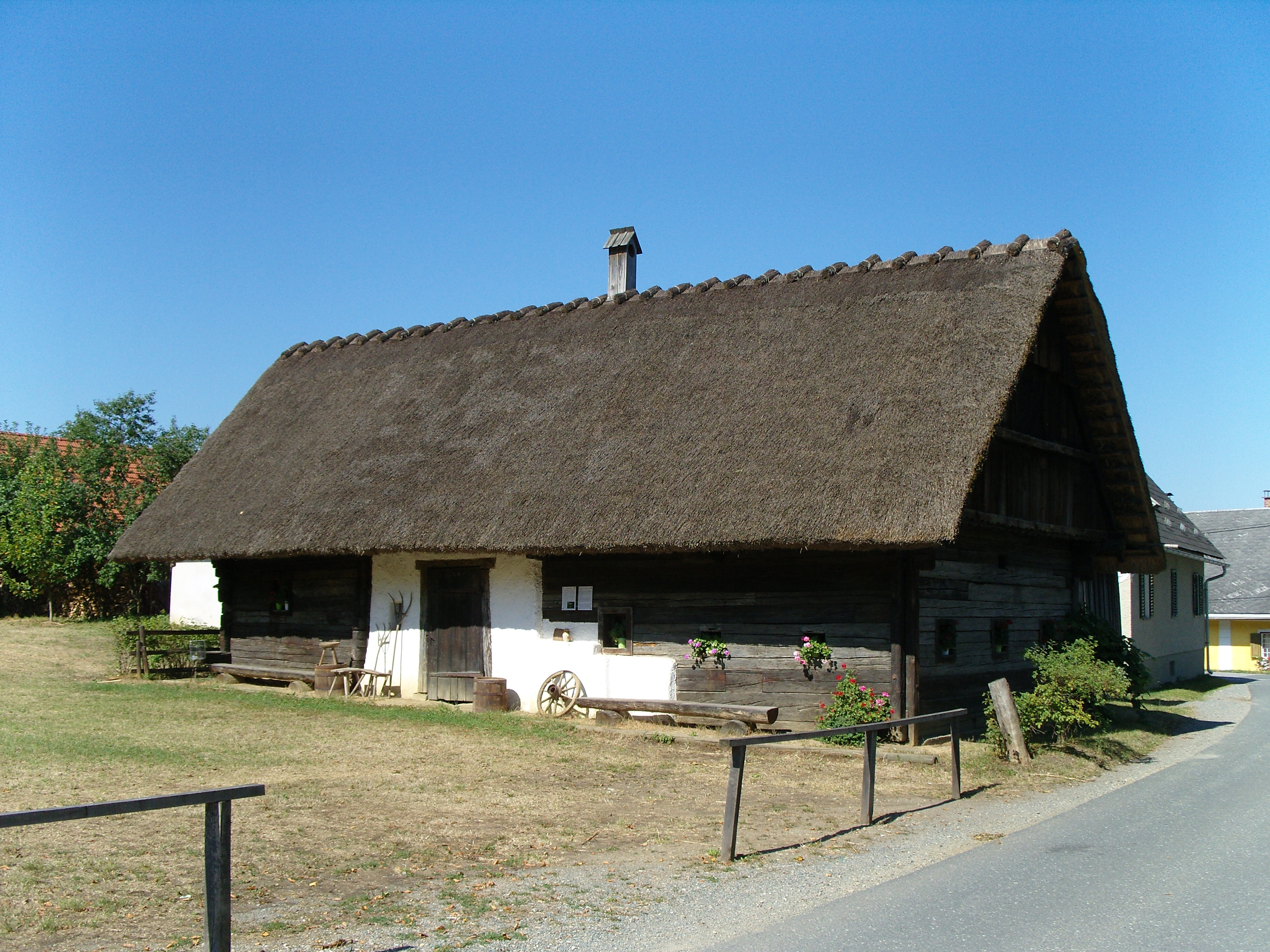 Thombauernhof (farmyard) about 1700 in Gündorf - Styria / Austria, the oldest farmhouse in southern Styria